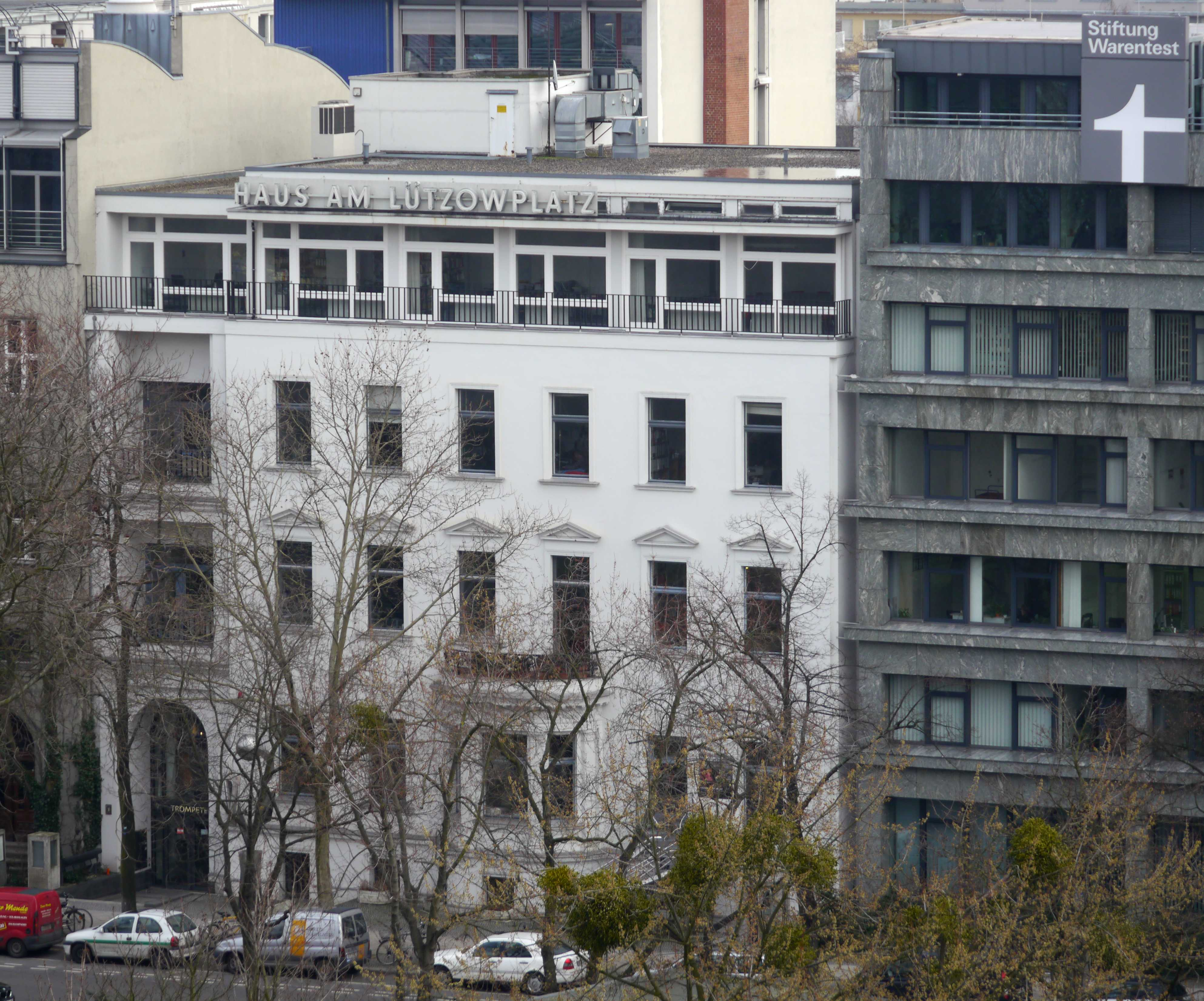 Luetzowplatz 9